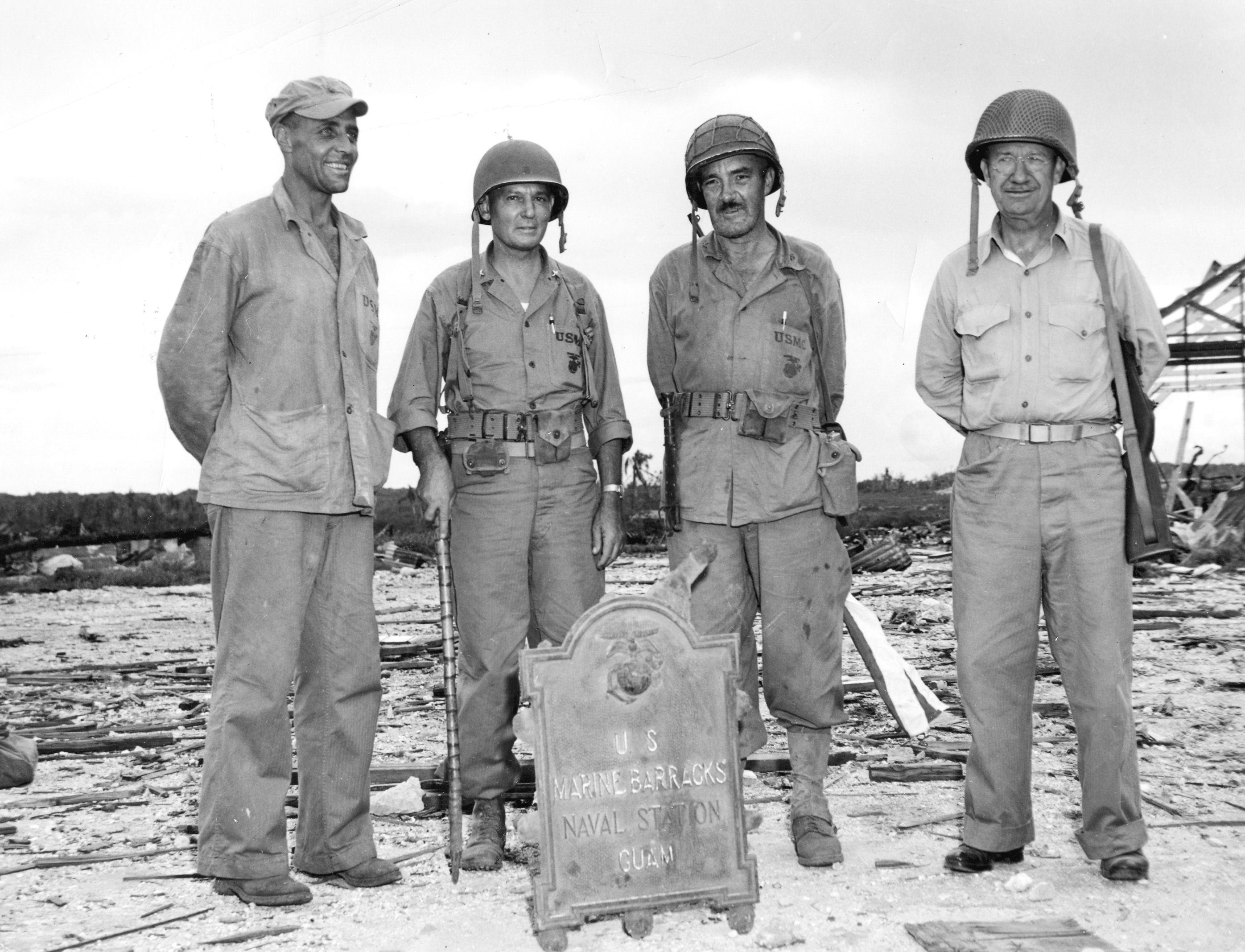 Lieutenant colonel Alan Shapley (Commanding Officer of 4th Marine Regiment), Brigadier General Lemuel C. Shepherd (Commanding General of 1st Marine Provisional Brigade), Colonel Merlin F. Schneider (Commanding Officer of 22nd Marine Regiment) and Lieutenant General Holland M. Smith (Commanding General of Fleet Marine Force, Pacific) following the recapture of Guam on August 10, 1944. OFFICIAL U.S. MARINE CORPS PHOTO 93543